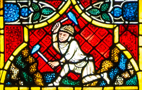 Part of Tulenhaupt-window at Münster Freiburg